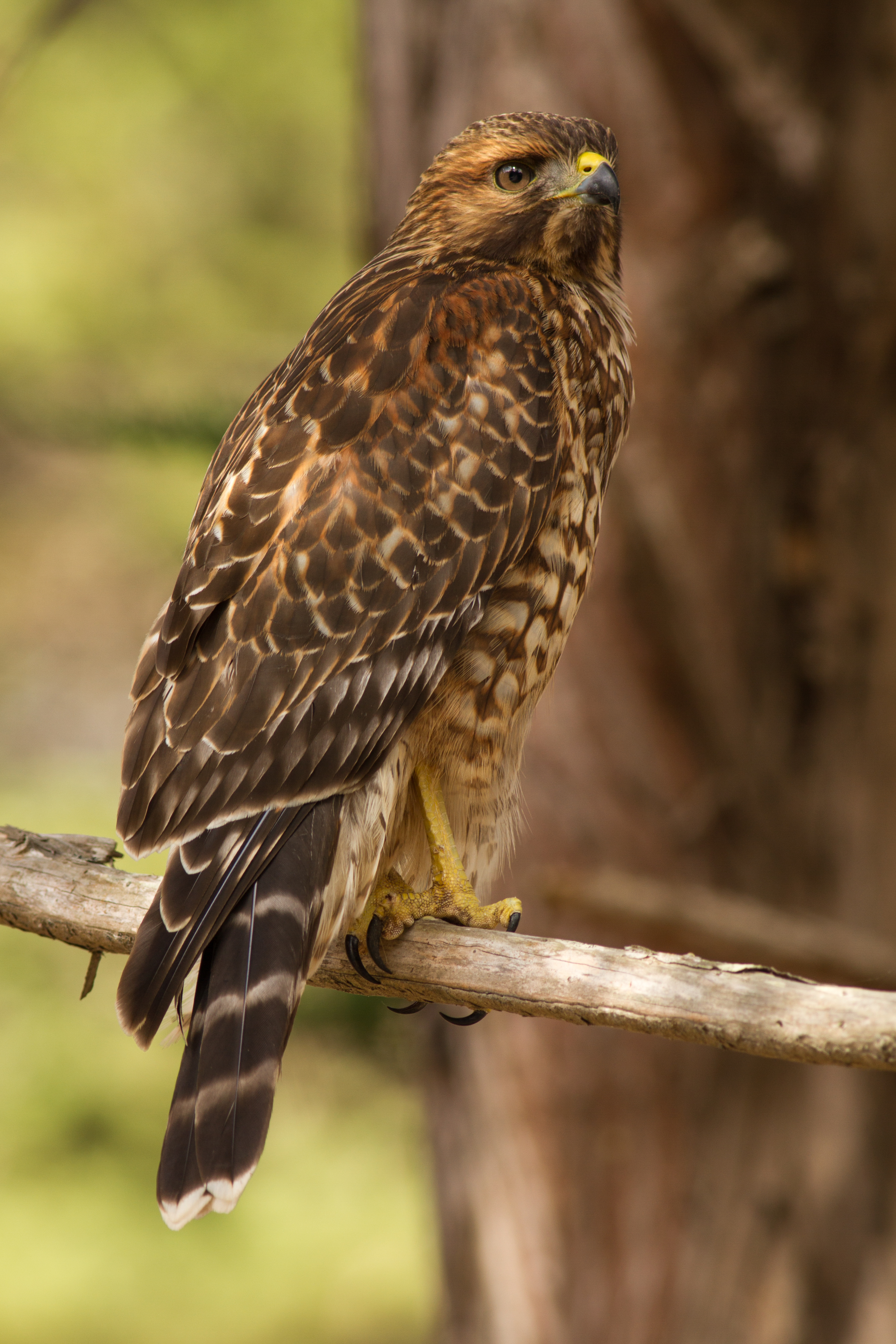 Juvenile red-shouldered hawk (Buteo lineatus elegans) at the Presidio, San Francisco, California.